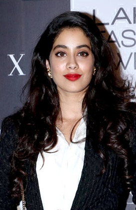 Janhvi Kapoor at Lakme Fashion Week 2018 – Day 4